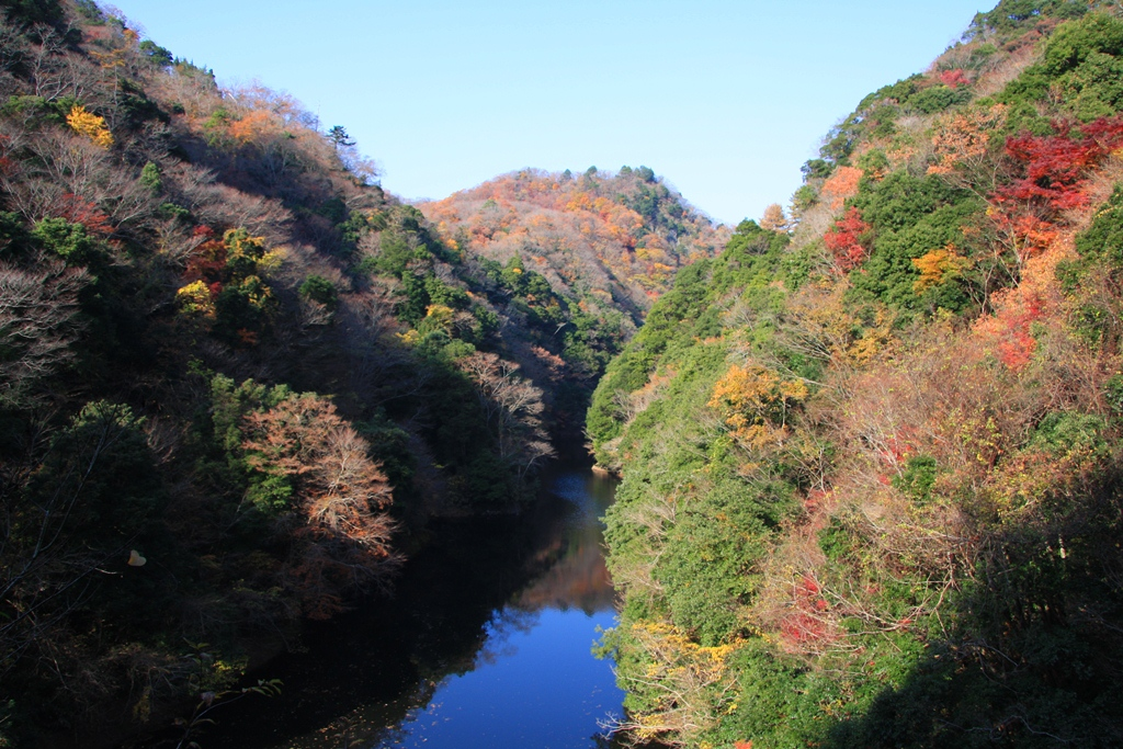 Hitachiota-shi, Ibaraki, Japan